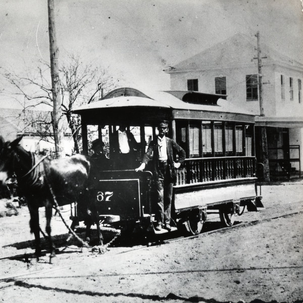 Mule-drawn streetcar of the Houston City Railroad on wooden tracks